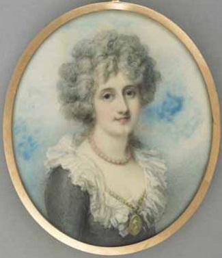 Maria Emilia Fagnani Seymour-Conway, marchesa di Hertford